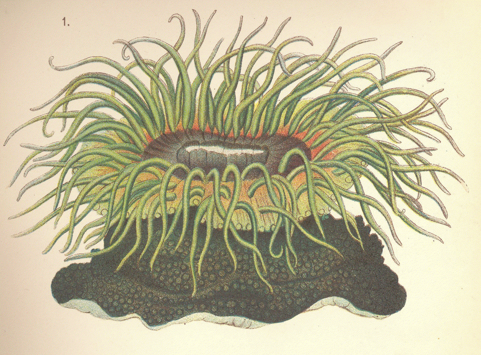 Phymactis veratra Subject: Sea anemones Tag: Invertebrates